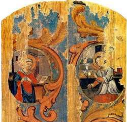 Annunciation (The Holy_Doors)